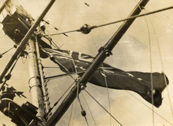 HMAS Hobart, Tuesday 07/08/42. "Action Ensign" on main mast, Australian flag broken when first gun is fired during invasion of Guadalcanal (Solomons). Eyewitness statement: I was a signalman on "Hobart" at the time we invaded the Solomons and the ship photographer took this snap after I came back down from securing the flag. The guns kept firing while I was still up there, and that mast shook like crazy.